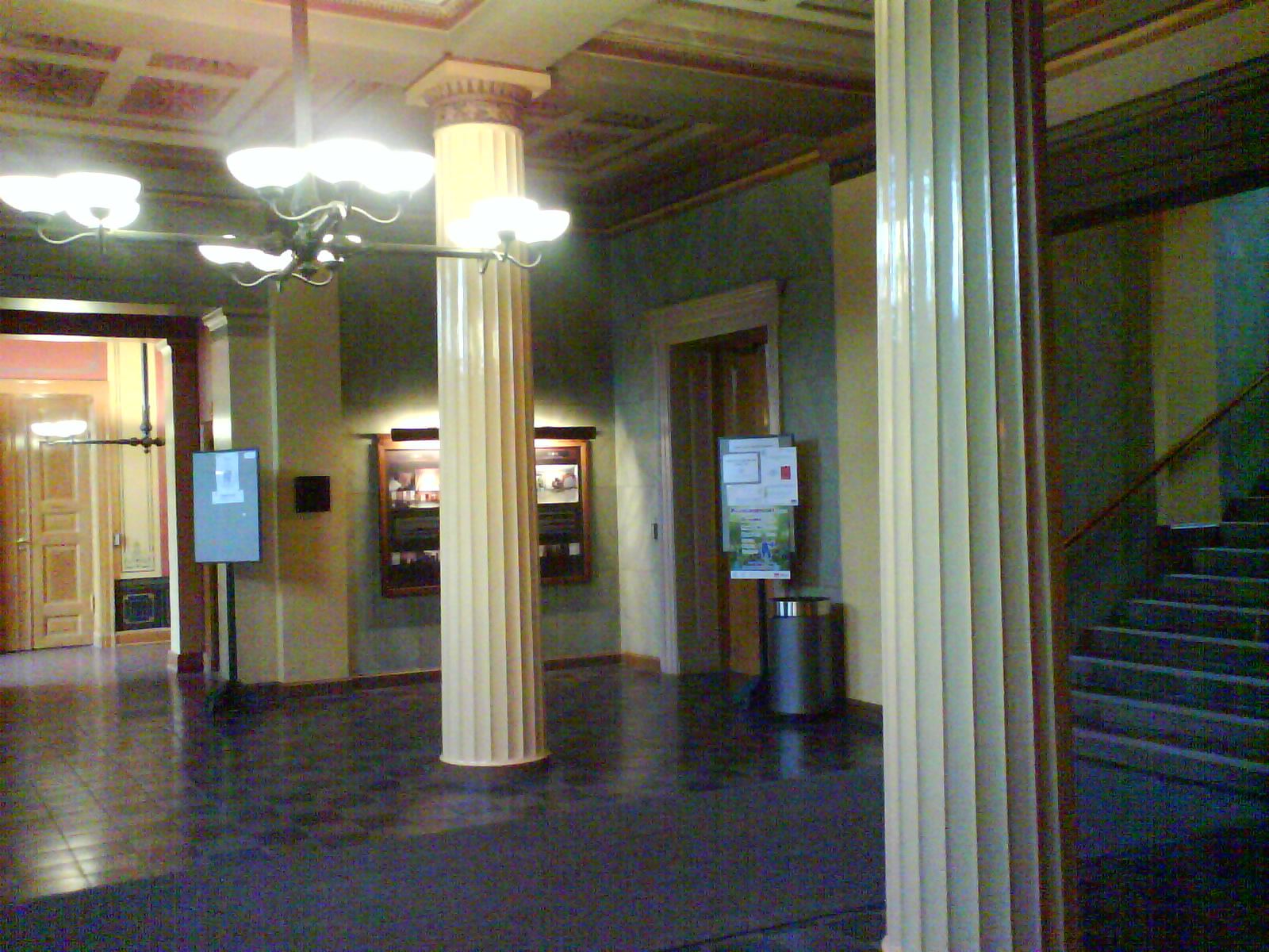 Domus Academica, Universitetet i Oslo